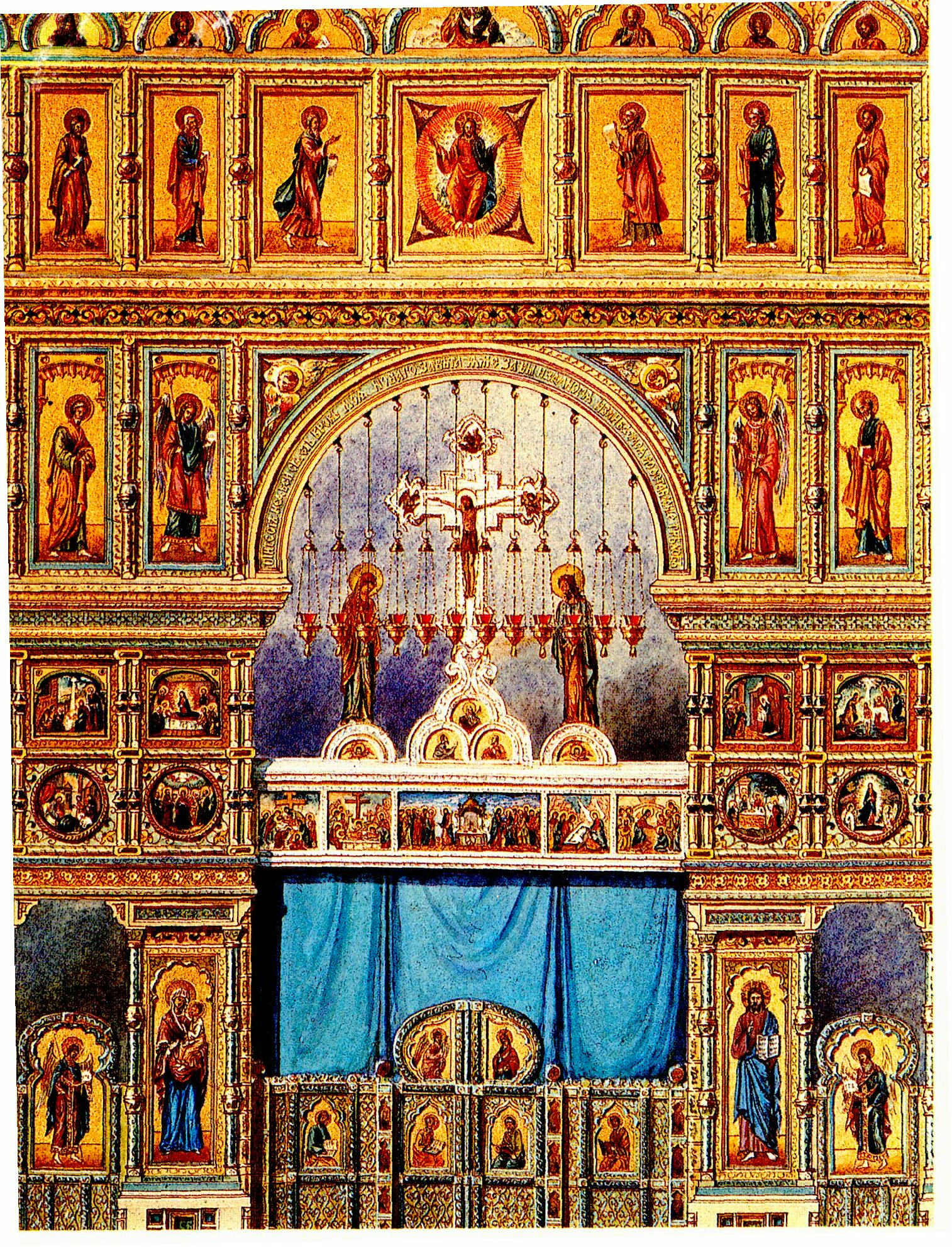 Peterhof (Russia), Cathedral of Peter and Pavel